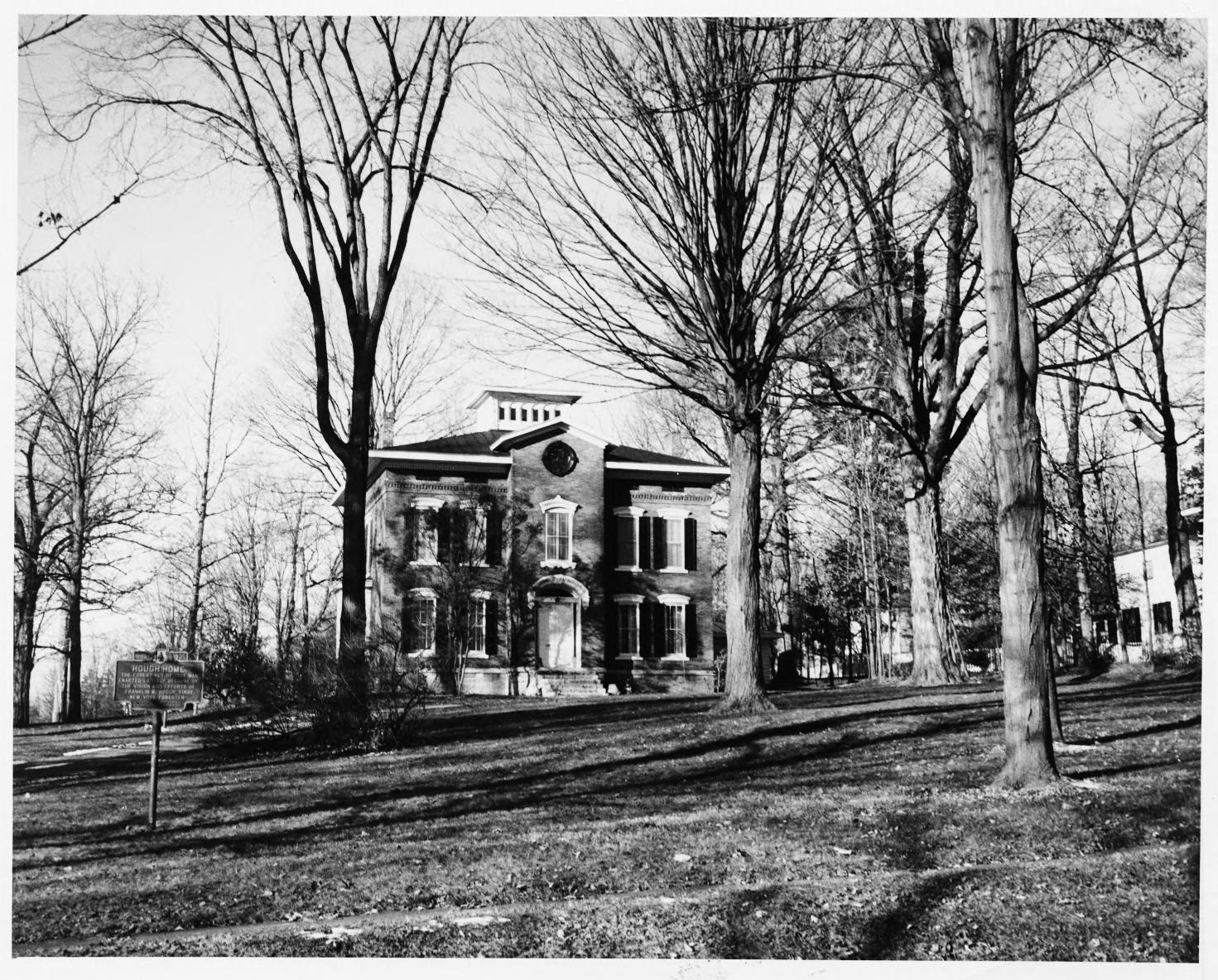 Franklin B. Hough House, Lowville, New York. Photo from 1962; verified by National Park Service (NPS) employee Richard E. Greenwood in 1975.